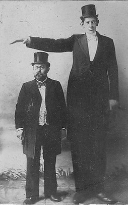 Julius Koch